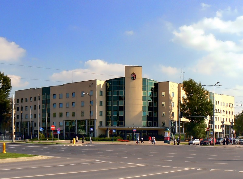 Bemowo District Hall (Bemowo is a district of Warsaw, Poland)